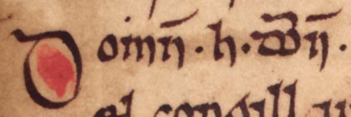 An excerpt from folio 68r of Oxford Bodleian Library Rawlinson B 489 (the Annals of Ulster). The excerpt concerns Domhnall Óg Ó Domhnaill, King of Tír Chonaill.